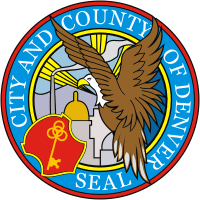 Seal of the City and County of Denver, CO